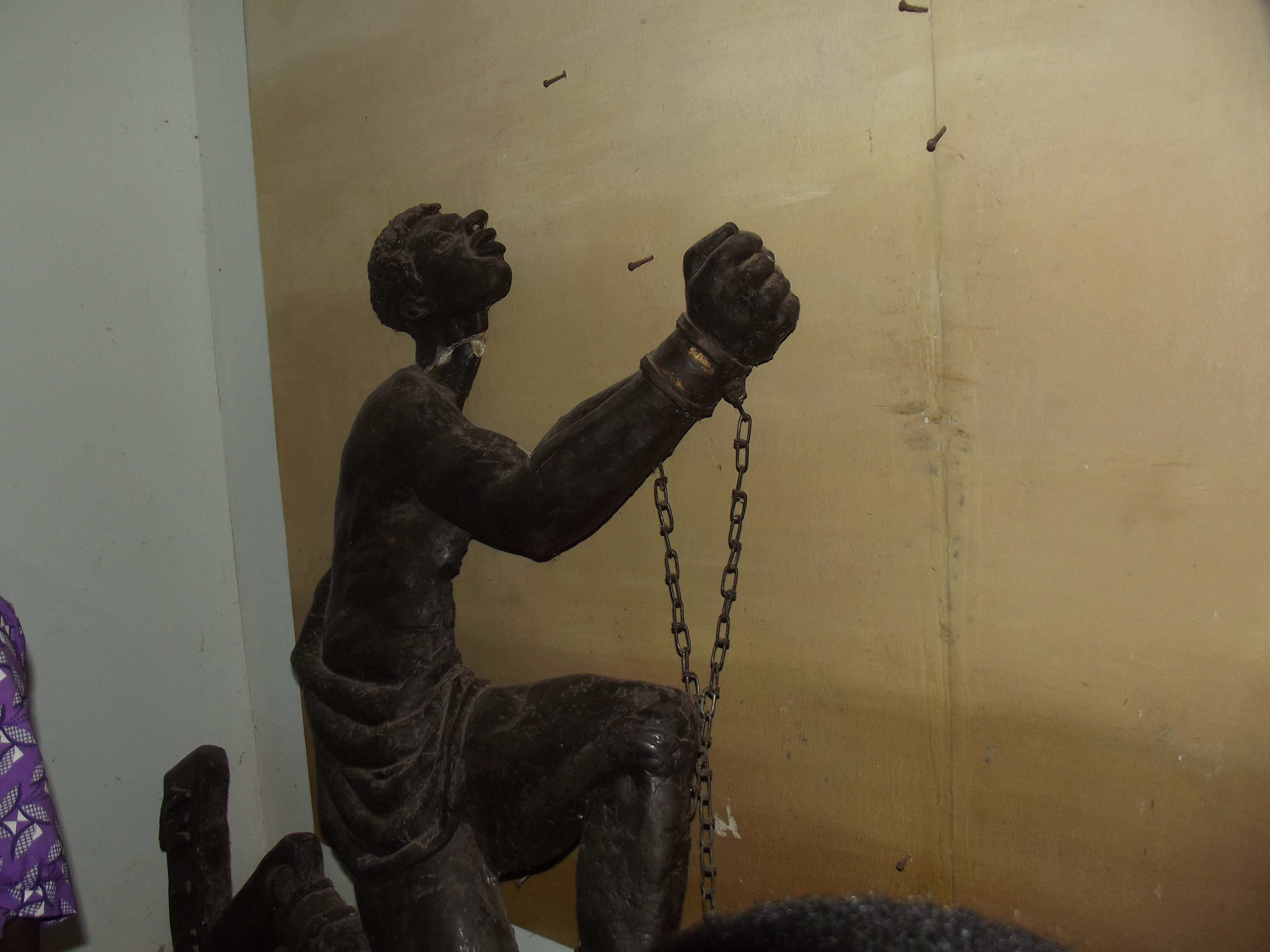 Break the chain. Liberate me free my soul. carvings of A slave about to be sold. This is an image of Cultural Fashion or Adornment from Nigeria